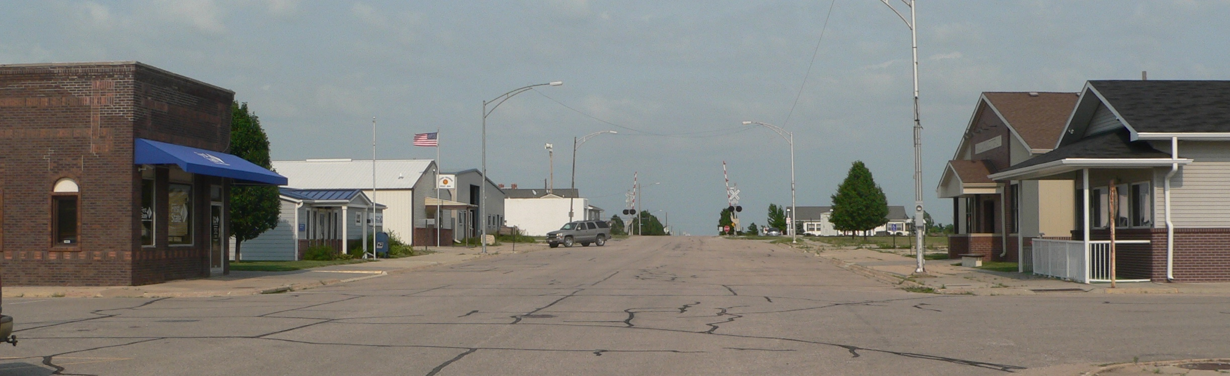 Downtown Hallam, Nebraska: Main Street, looking east from about Harrison Streets.